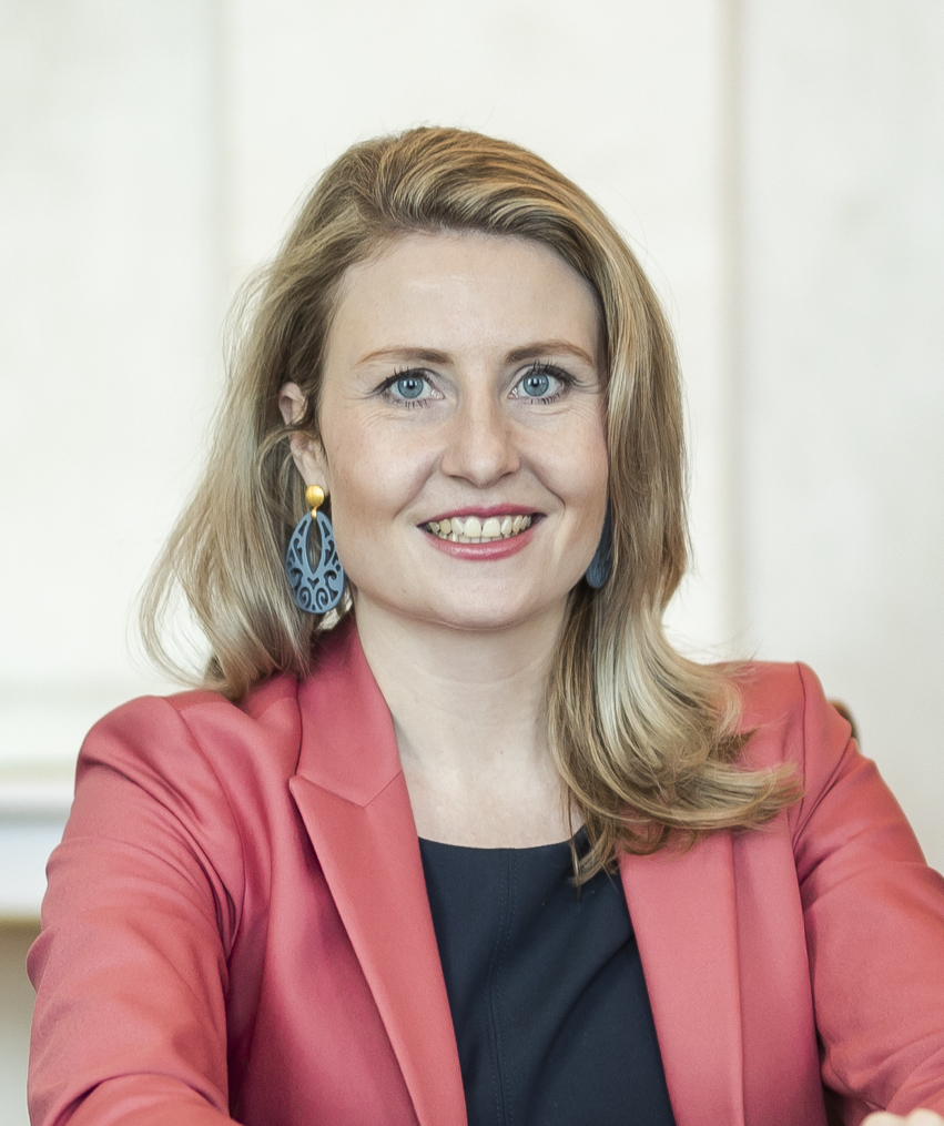 Fotocredit: BKA